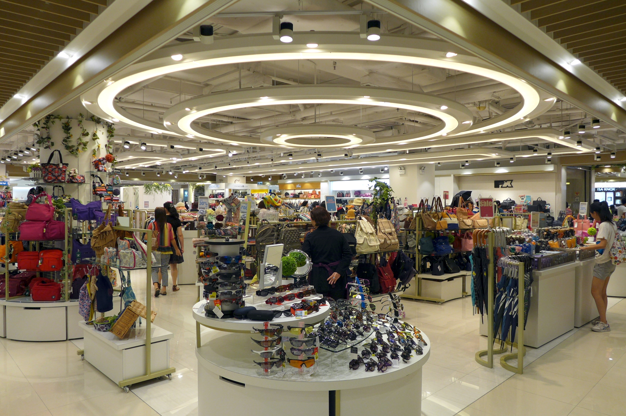 KOLOUR Yuen Long Citistore